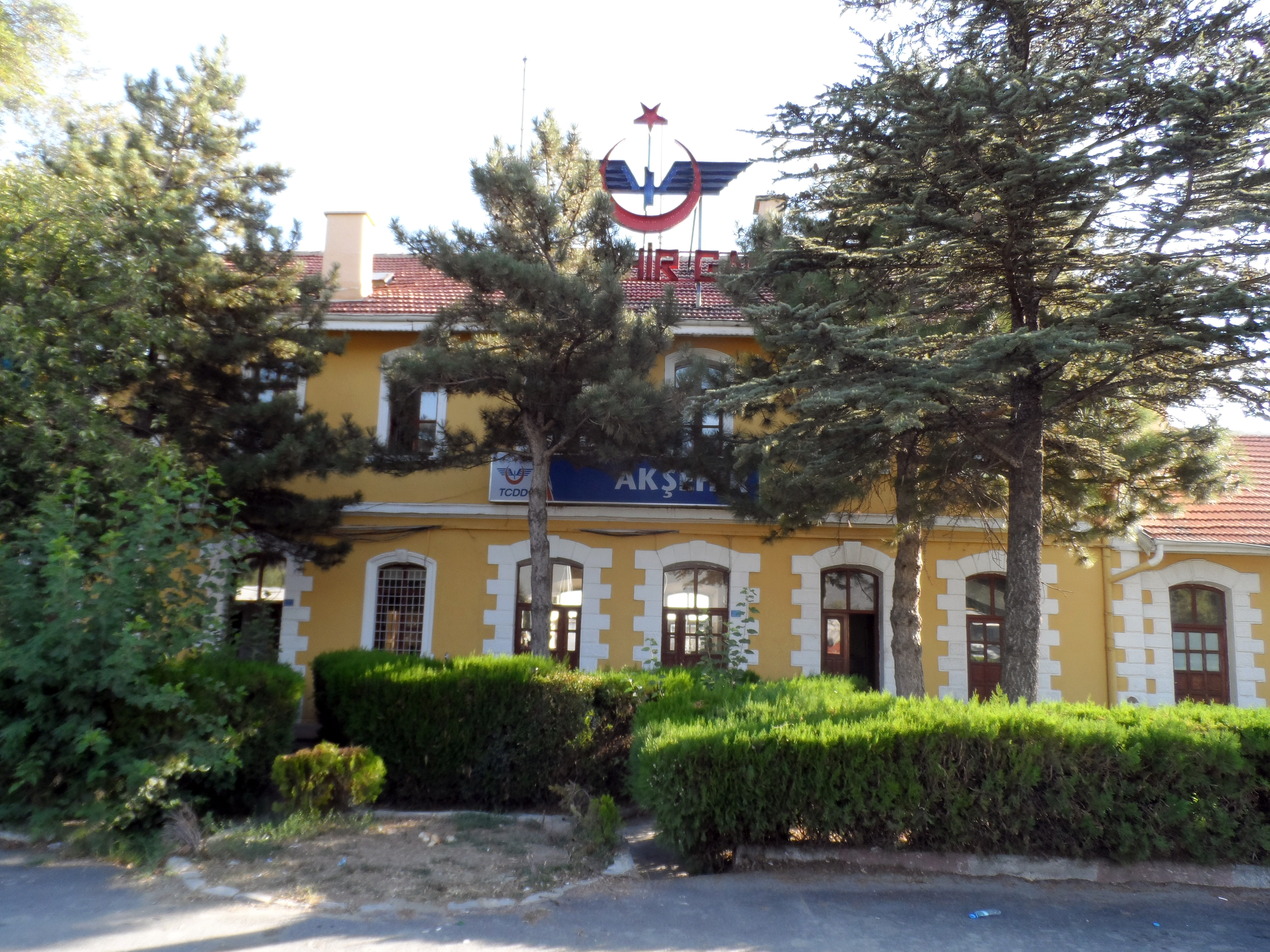 Akşehir station from south west